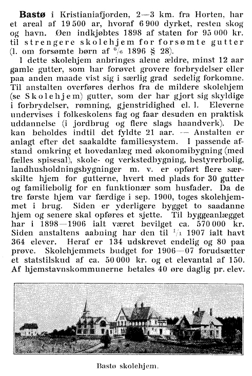 Article from Illustreret norsk konversationsleksikon, a copyright free Norwegian lexicon published 1907–1913, on Bastøya Island and Boys' School in the Oslo fjord, Norway.